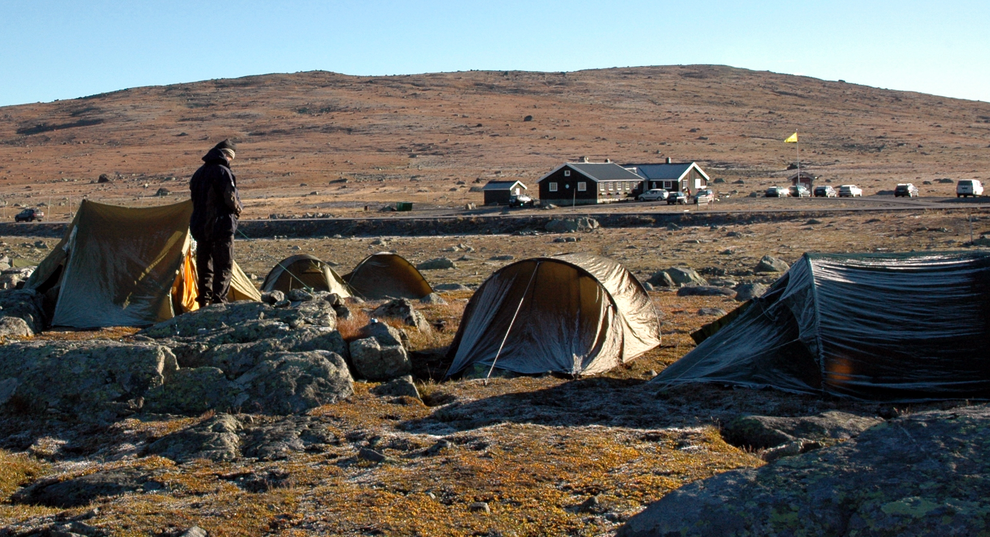 The house in the picture is Valdresflya Youth Hostel. At 1389 metres above sea level it is the highest situated Youth Hostel in Northern Europe